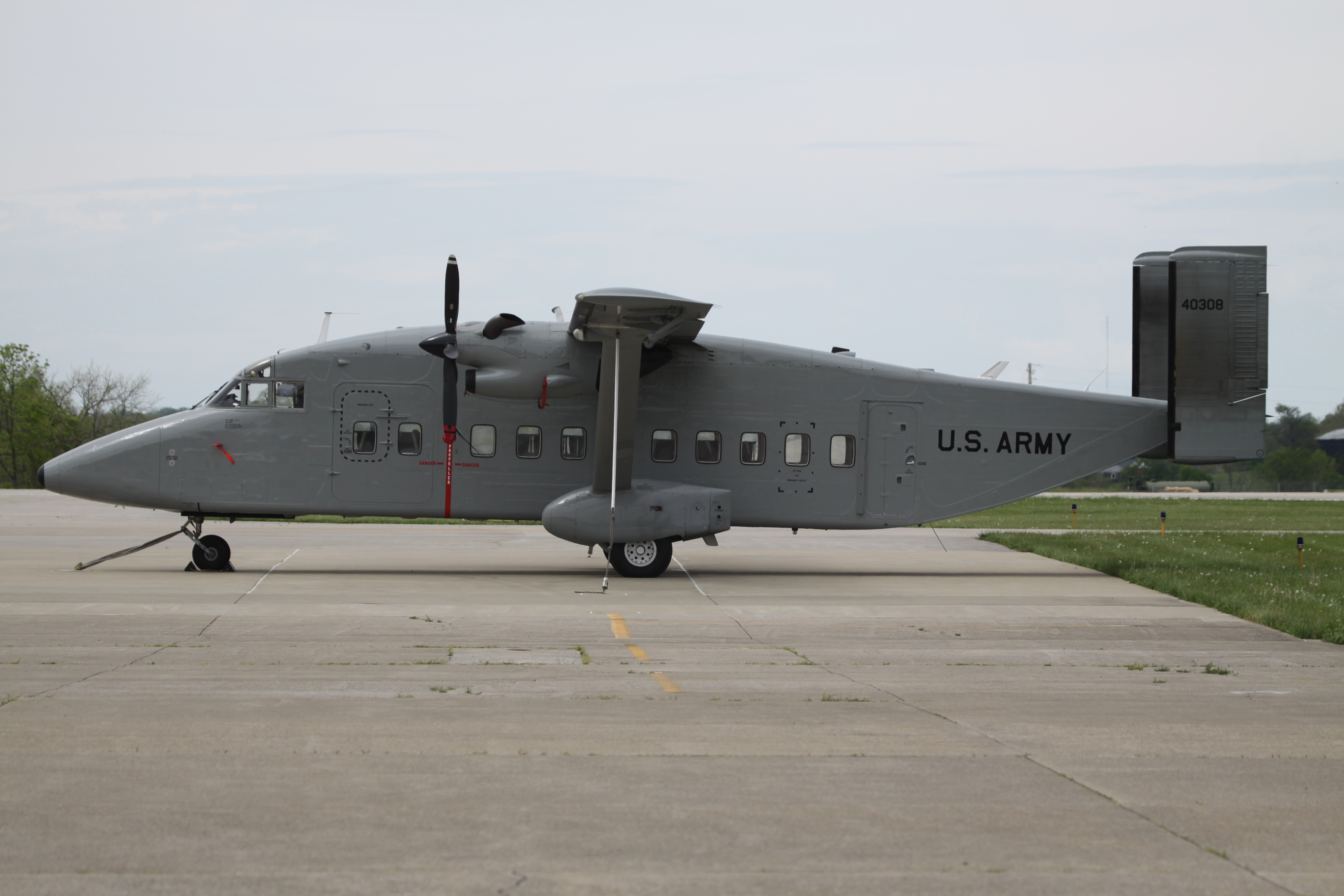 At Frankfort Capital City Airport